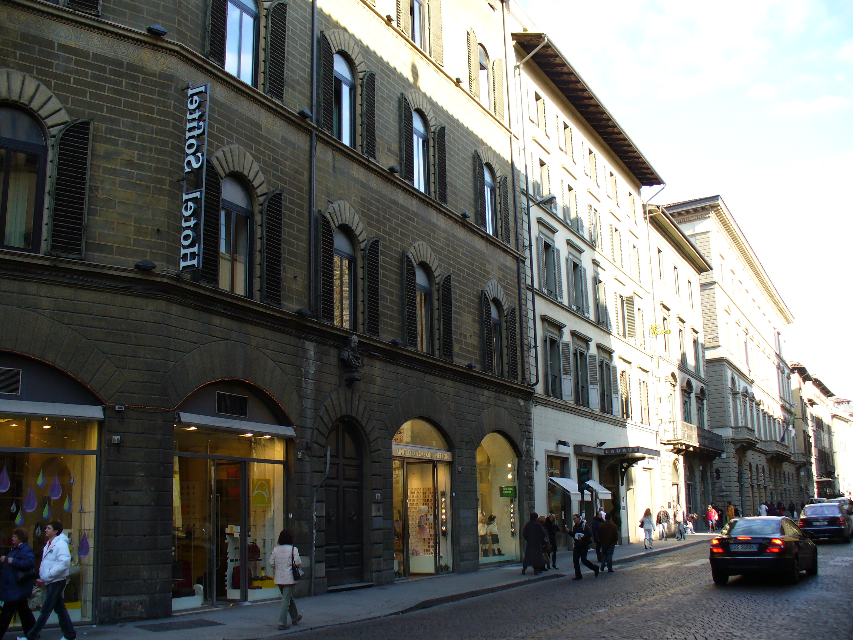 Via de' Cerretani Firenze